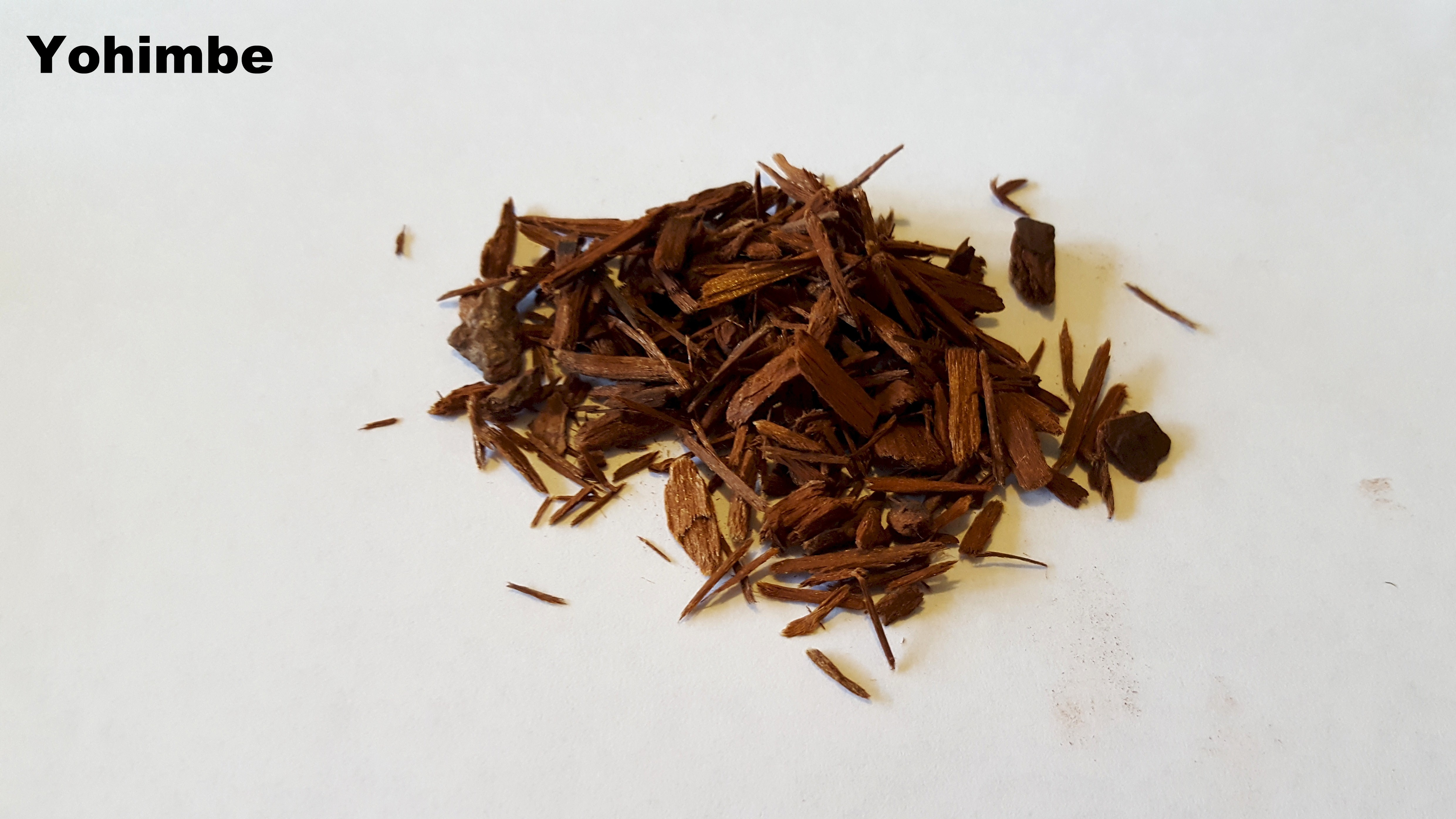 Yohimbe (Pausinystalia Johimbe) has traditionally been used as a medicine in central and west Africa as both an aphrodisiac and a stimulant.